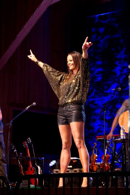 American musician Sara Lynn Evans